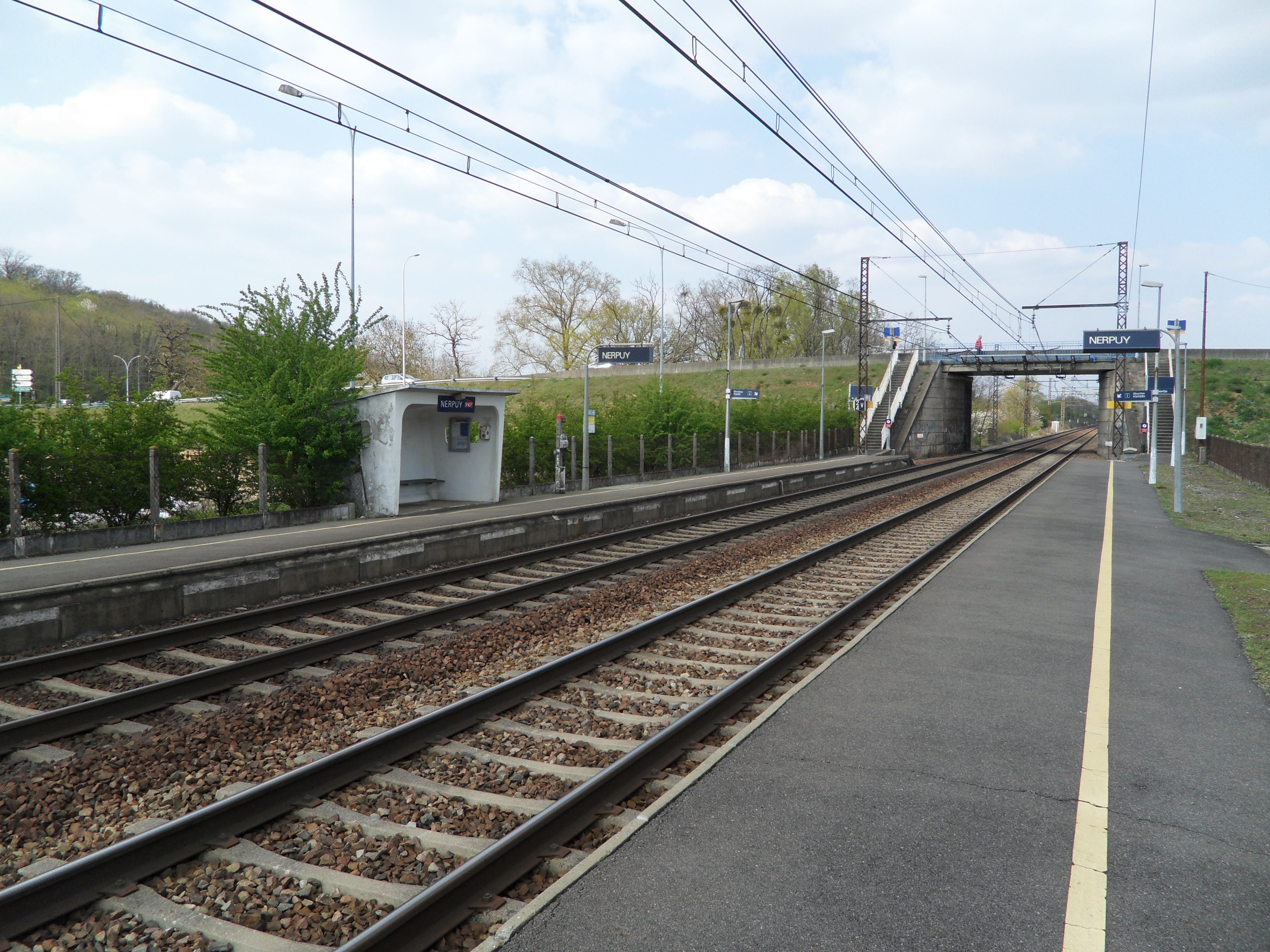 View towards Tours of the station platforms of Nerpuy in Naintré, Vienne, France.